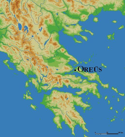 Oreus location on Euboia.